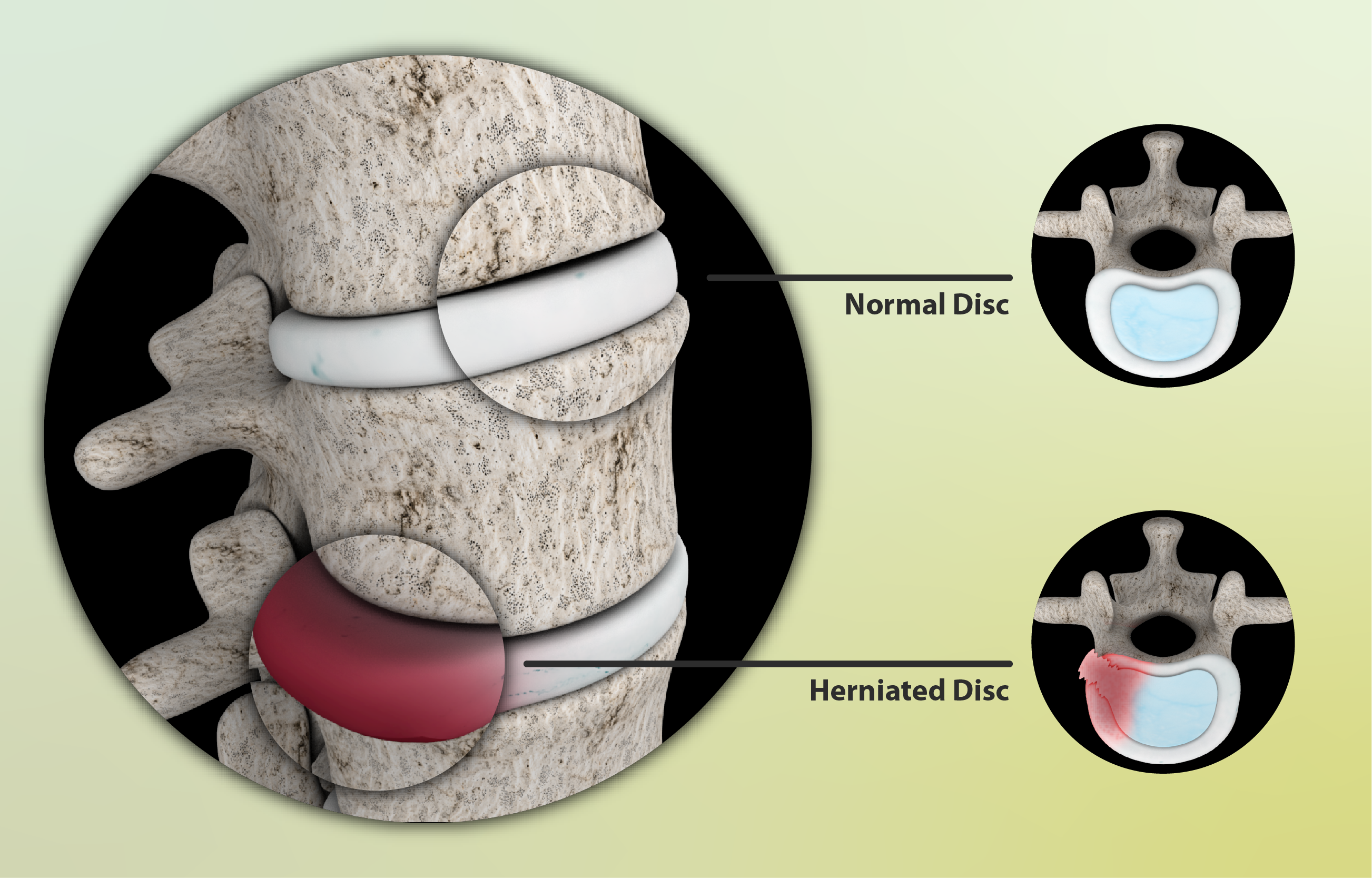 Render of a 3D depiction of a herniated disc. A normal disc has been shown for comparison.